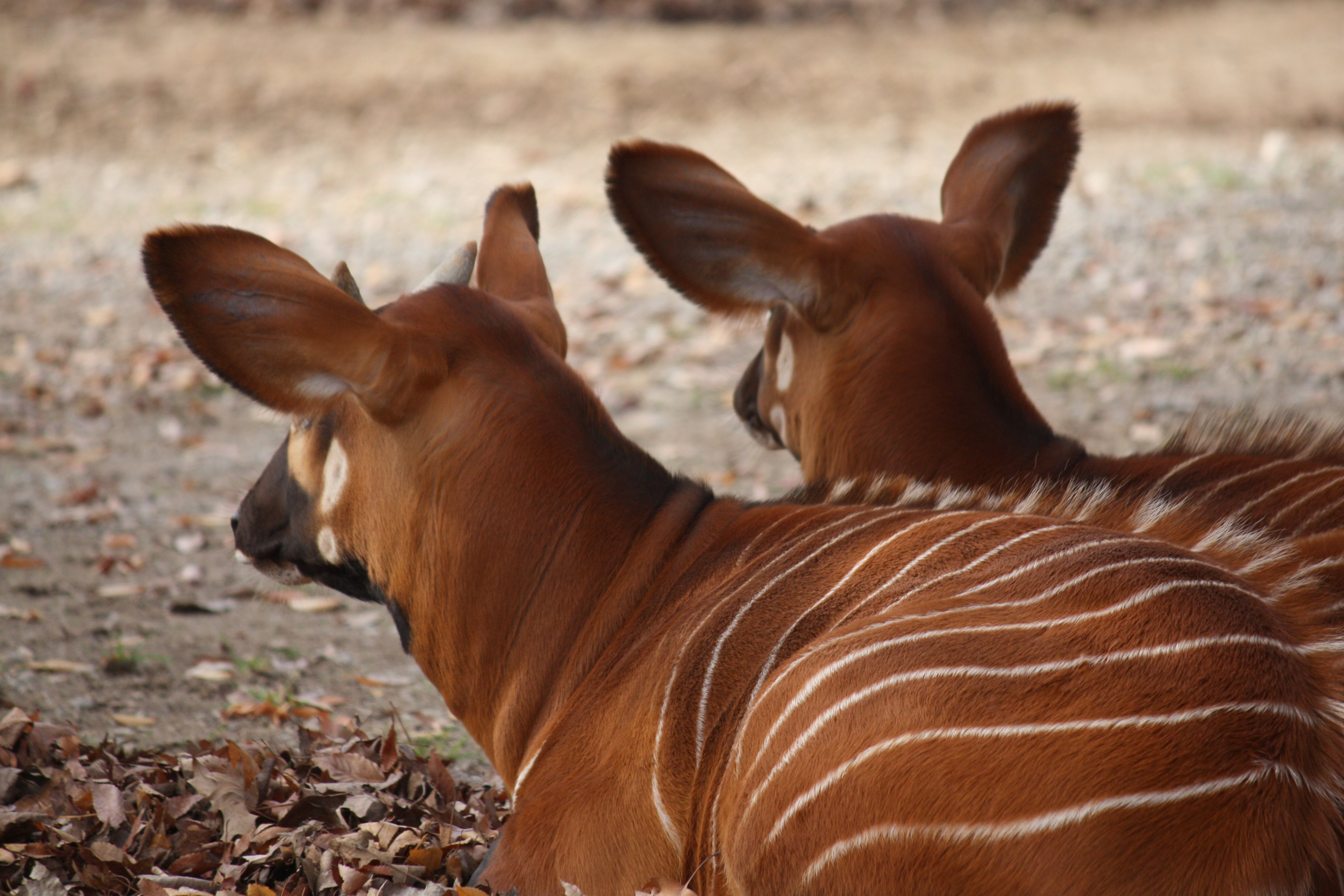 Tragelaphus eurycerus isaaci at the Louisville Zoo